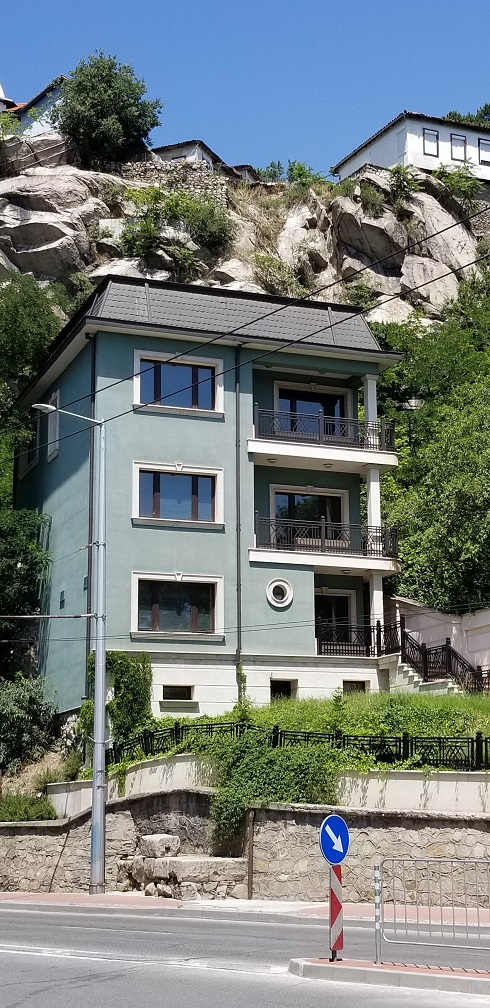 Ethnic House in Plovdiv